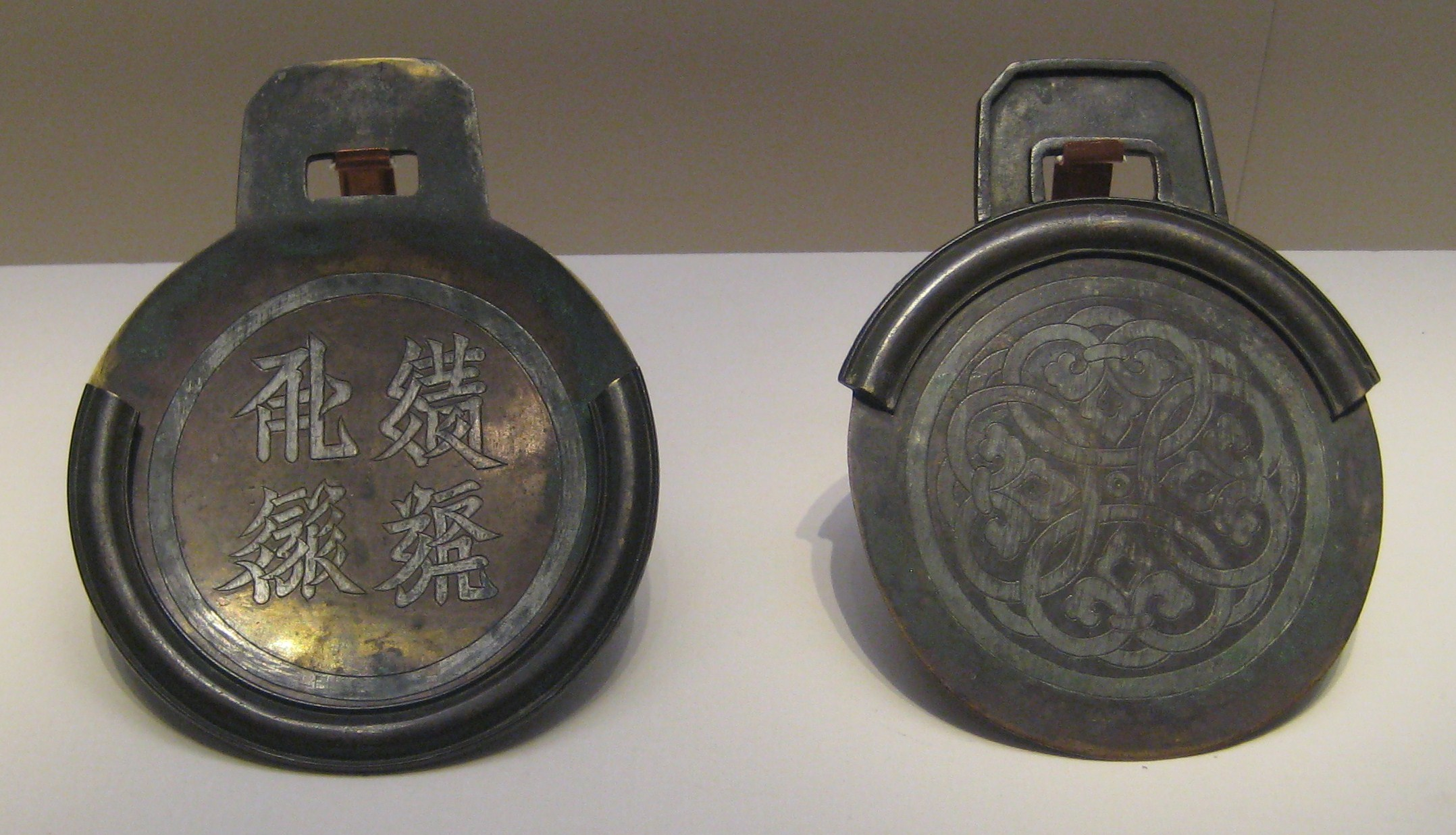 Bronze two-part pass (paizi) with four character inscription in the Tangut script inlaid in silver. Western Xia (1038-1227). The Tangut inscription reads "𗿢𗯼𘆝𗪊" meaning "By imperial command, a pass to burn the horses" (i.e. to ride with great urgency) (translated as 敕燃馬牌 in Chinese). Four Tangut characters reading top-to-bottom right-to-left: L2806 "command, order, edict", L5185 "to burn, catch fire", L0764 "horse", L3697 "paizi" [Li Fanwen, Xia-Han Zidian 2008]. At the bottom of the left half and top of the right half is a faint seal script form character "𗿢" meaning "Imperial command" (same as first character of main inscription).